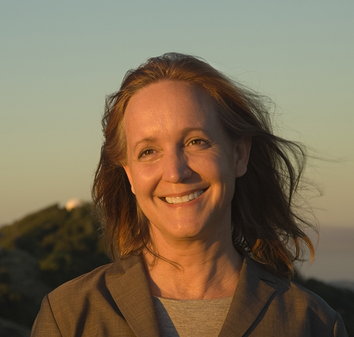 Debra Fischer Professor of Astronomy San Francisco State University